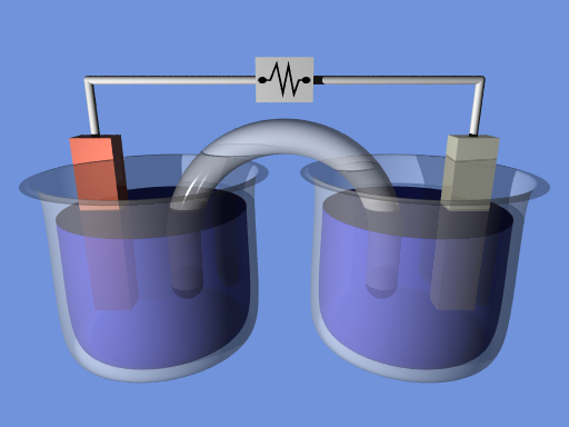 A diagram of an electrochemical cell. Author, Alksub, made it in POV-Ray.